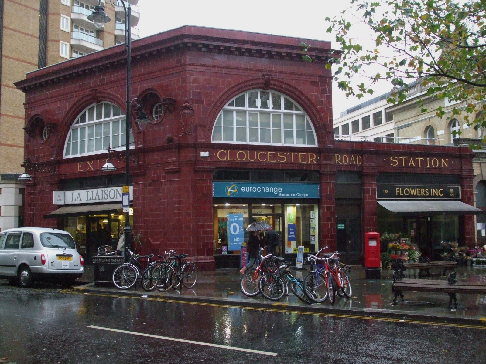 Gloucester Road tube station former Piccadilly line building looking north. This is just to the left of the present building, just visible on the far right. Now used as shops.